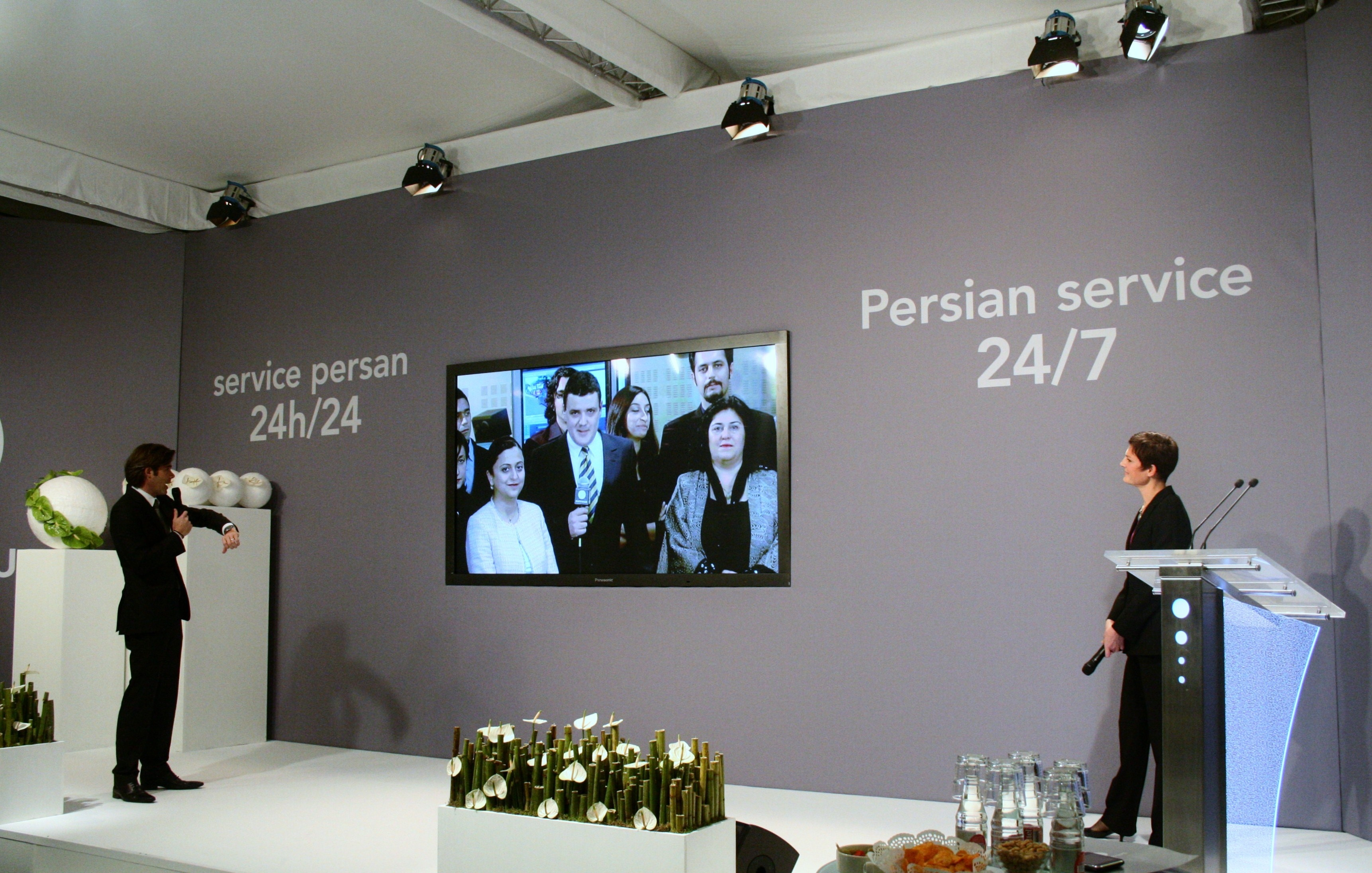 Launching Ceremony of EuroNews Persian Service at EU Parliament, Brussels, Oct 2010 Photo by Pejman Akbarzadeh